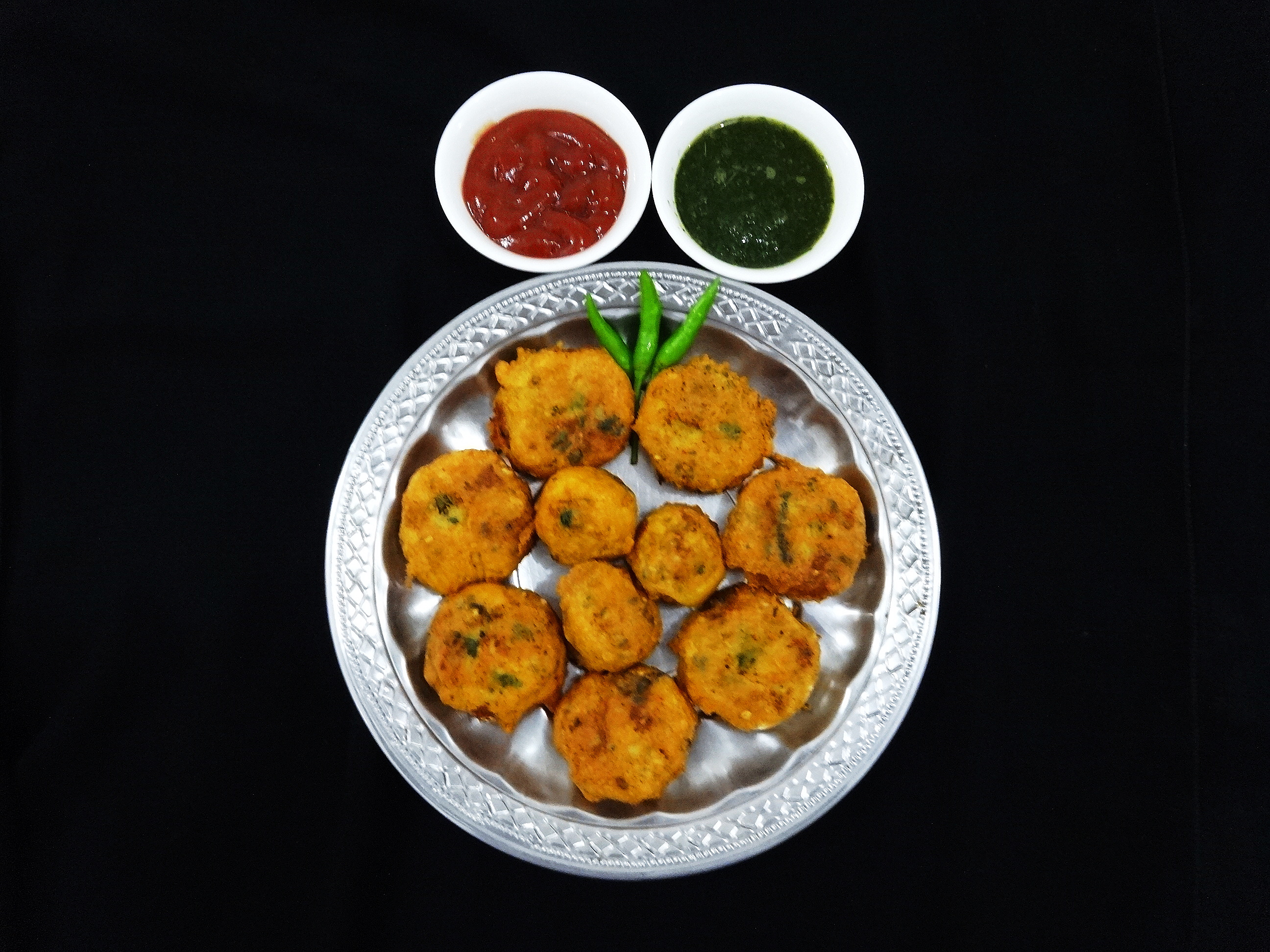 Batata Vada, بٹاٹا وڑا